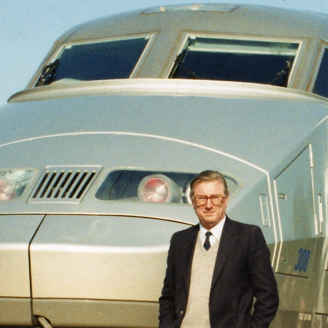 Cropped colour photograph of man (Dr John Paul Wild) in dark jacket, shirt and tie standing in front of French TGV high-speed train.